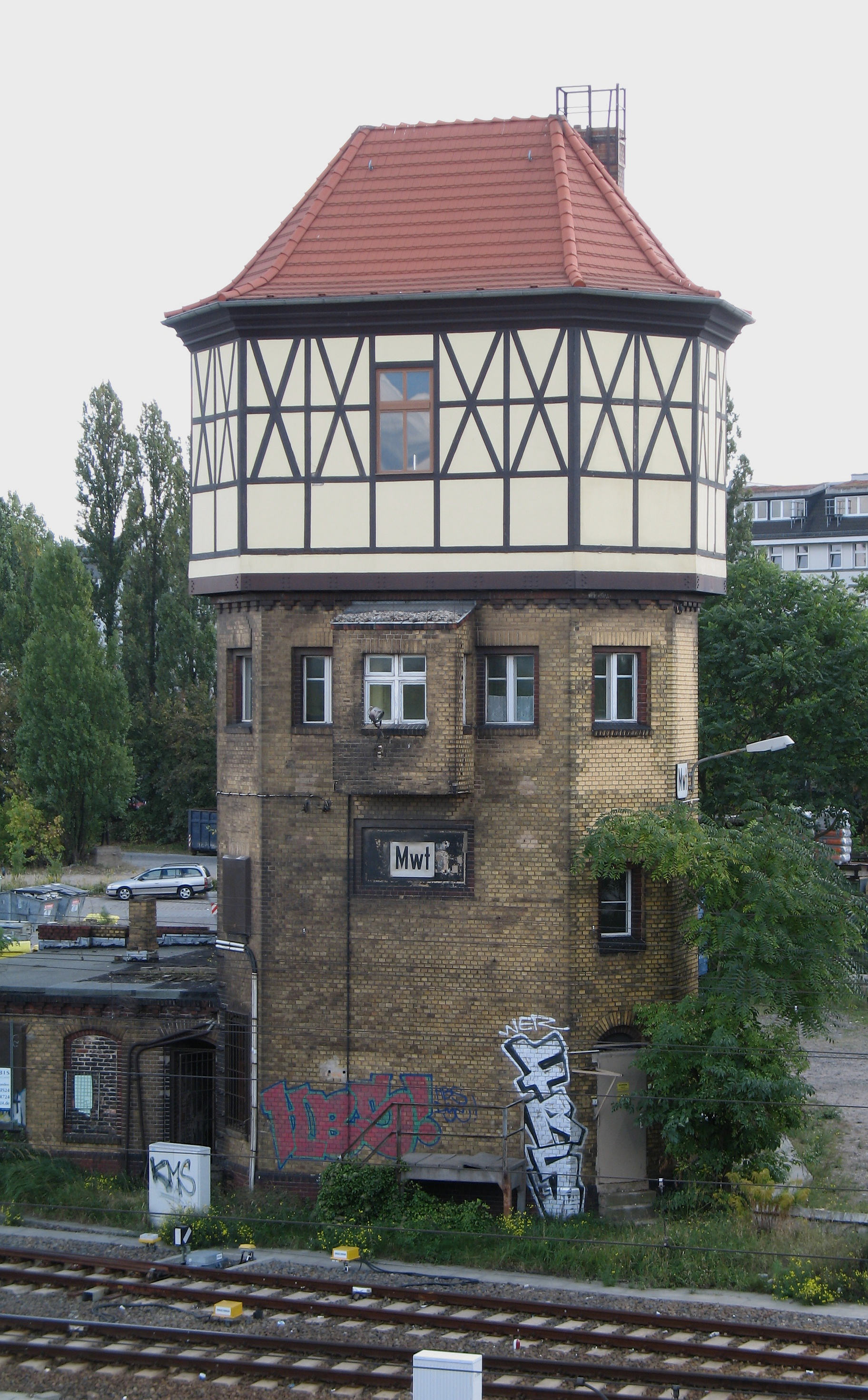 Switch tower at commuter train station Berlin-Beusselstrasse